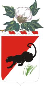 Coat of Arms for 31st Cavalry REgiment from